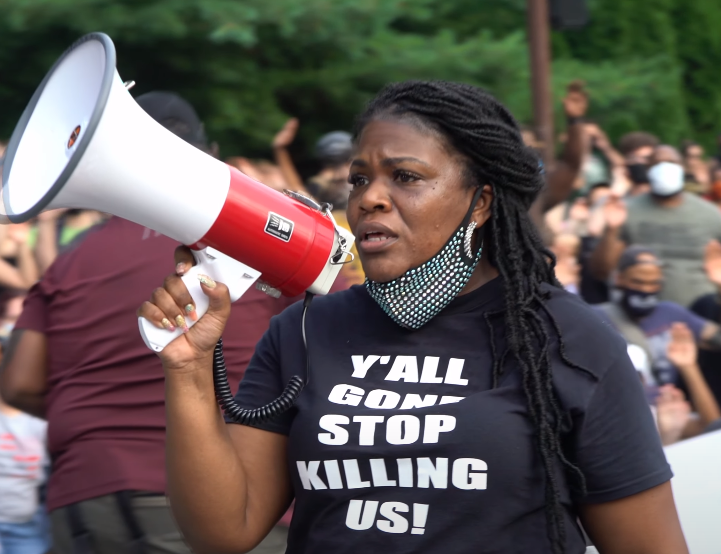 Congressional candidate Cori Bush speaking at an Expect Us rally